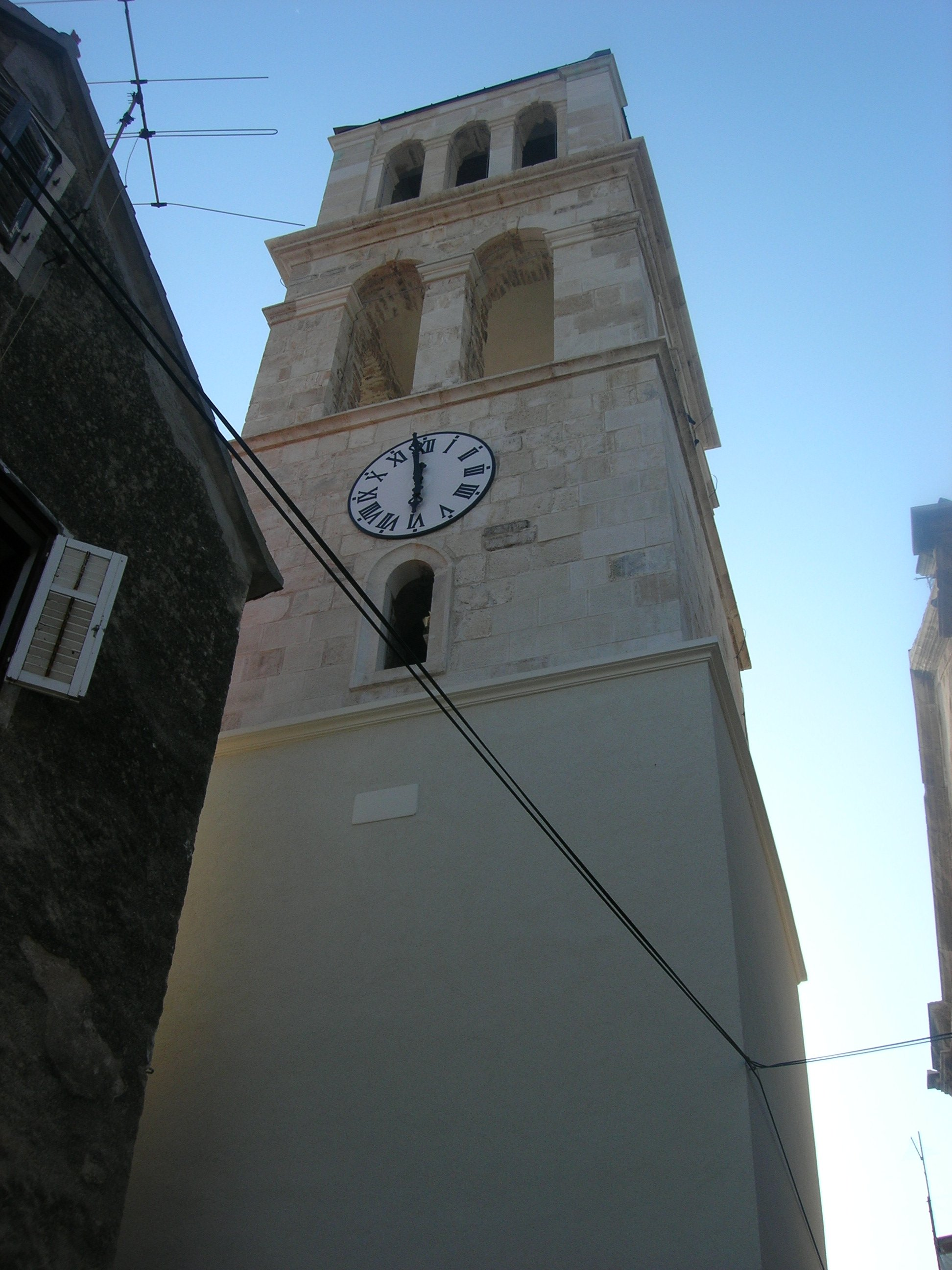 Town Parish Church of the Holy Cross in Vodice, Šibenik-Knin County, Croatia, built from 1746 to 1749